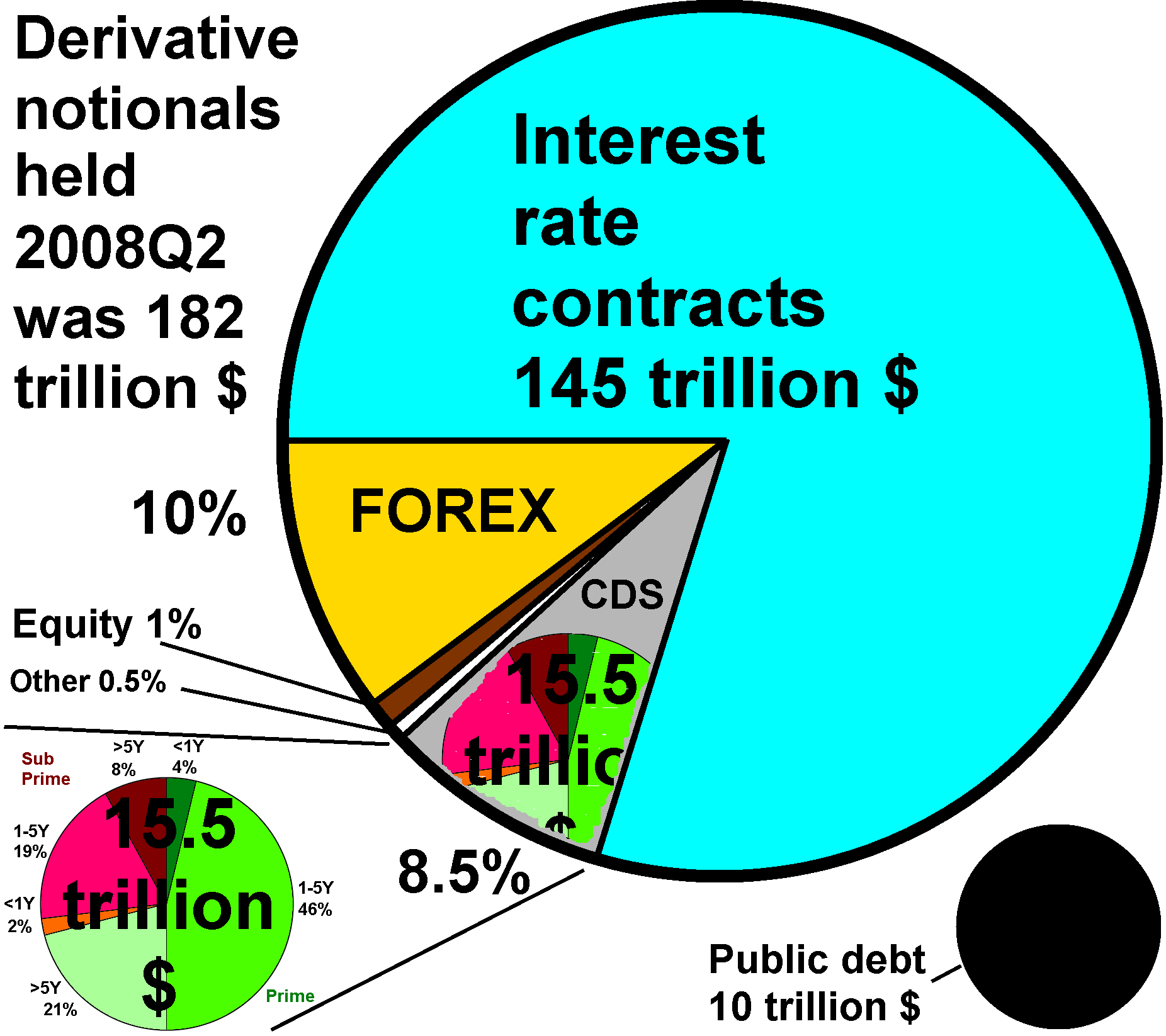 Proportion of credit derivatives (CDSs) nominals (lower left) held by United States banks compared to all derivatives, at the end of the second quarter in 2008. The black disc lower right represents the 2008 US public debt of 10 trillion. The 15.5 trillion US dollar CDSs is 8.5 % of the total derivative nominals held. in the United States for the second quarter of 2008. Foreign Exchange (FOREX) derivatives are 10%, while Interest rate derivatives make up 79.5% of the total. See also: left|thumb|Credit default swaps by grade and maturity Category:Derivatives